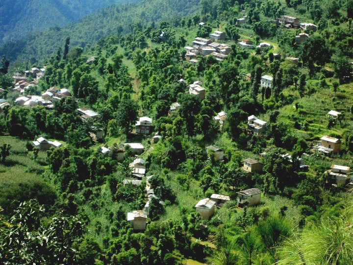 This picture of Simpani village itself